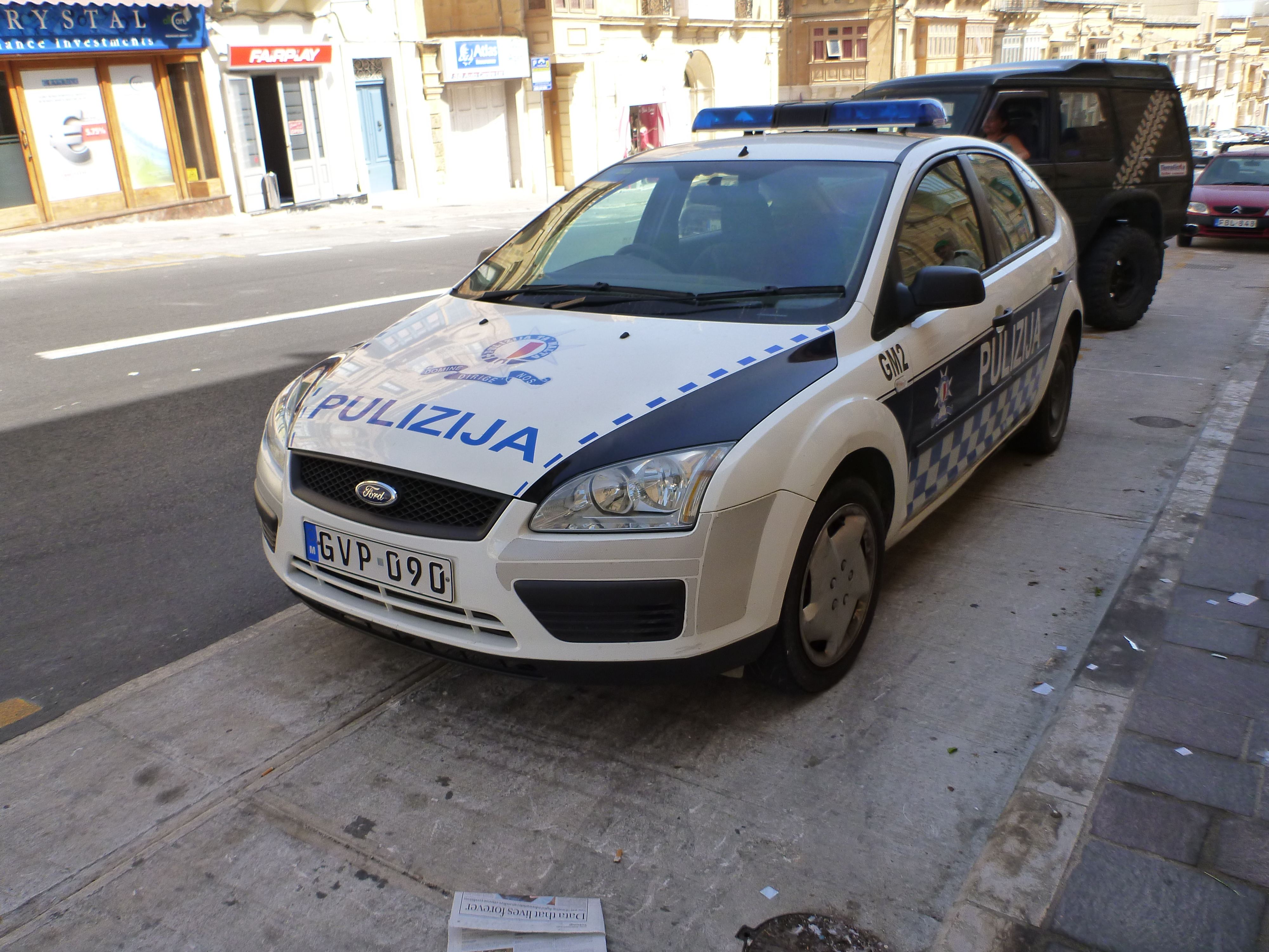 A Ford Police car on Island Gozo in Victoria, Malta